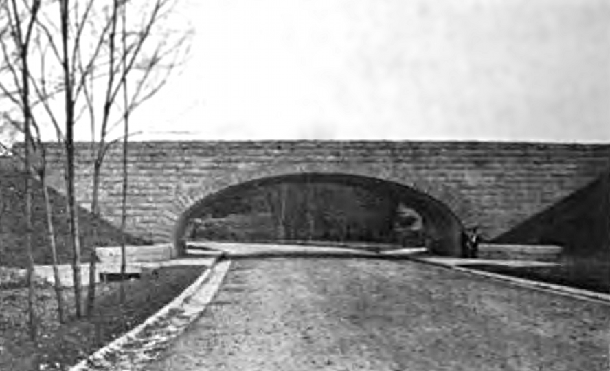 Photo showing the Granite Branch bridge over Furnace Brook Parkway in Quincy, Massachusetts from about June 1909.